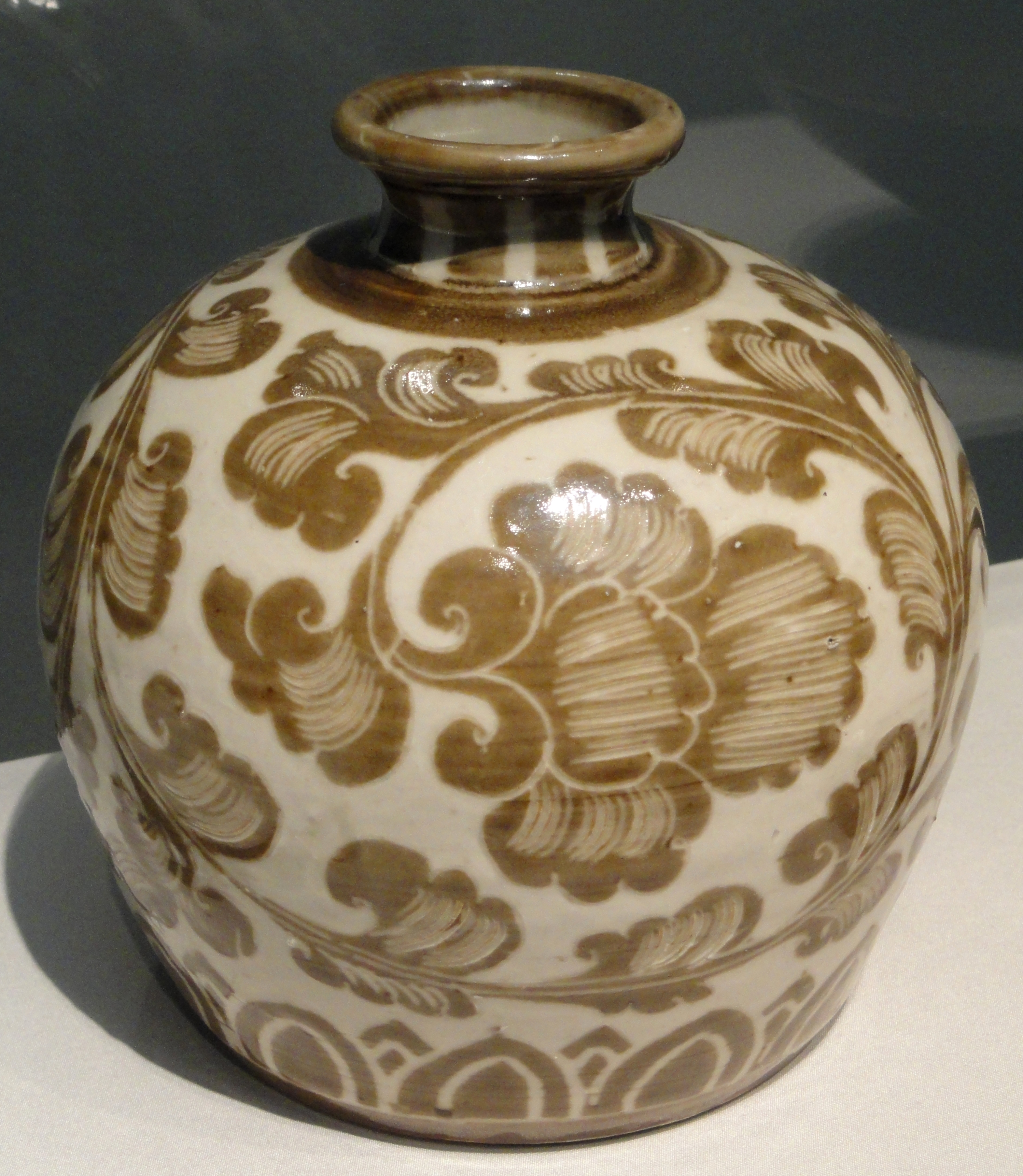 Exhibit in the Freer Gallery of Art, Washington, DC, USA. This artwork is old enough so that it is in the public domain.